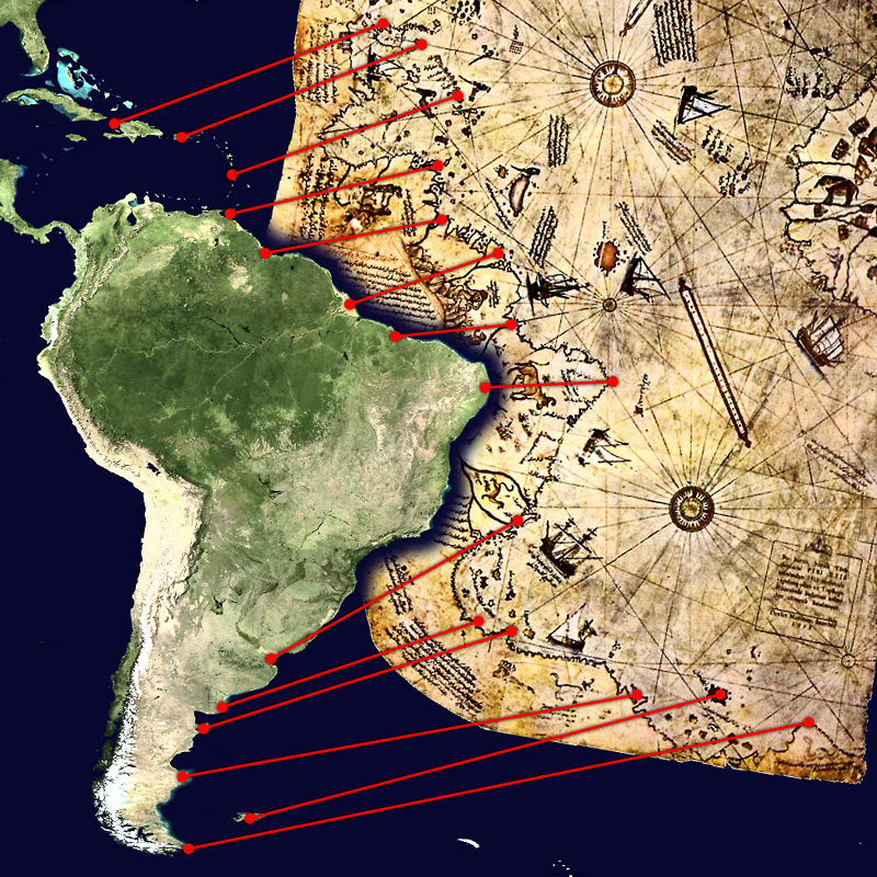 Possible interpretation of the Piri Reis map. Central and South America on the left, North Africa in the upper right, south Atlantic Ocean in the middle. Markers from north to south: Haiti and Dominican Republic (Hispaniola island) Puerto Rico Lesser Antilles Trinidad (and Tobago), off the coast of Venezuela Mouth of Corentyne between Guyana and Surinam Amazon Delta River Pará and the island of Marajó (far eastern mouth of Amazon river system) Easternmost point of South America, near Natal Río de la Plata Mouth of Negro River Valdés Peninsula Modern Santa Cruz province in Argentina, south of Comodoro Rivadavia Islas Malvinas Cape Horn (close to Tierra del Fuego) An alternative (but less likely) interpretation of those ancient map can be found here: File:Piri Reis map interpretation RG.jpg